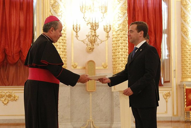 The new Apostolic Nuncio to the Russian Federation, Mgr. Ivan Jurkovic, presents his letter of credence.